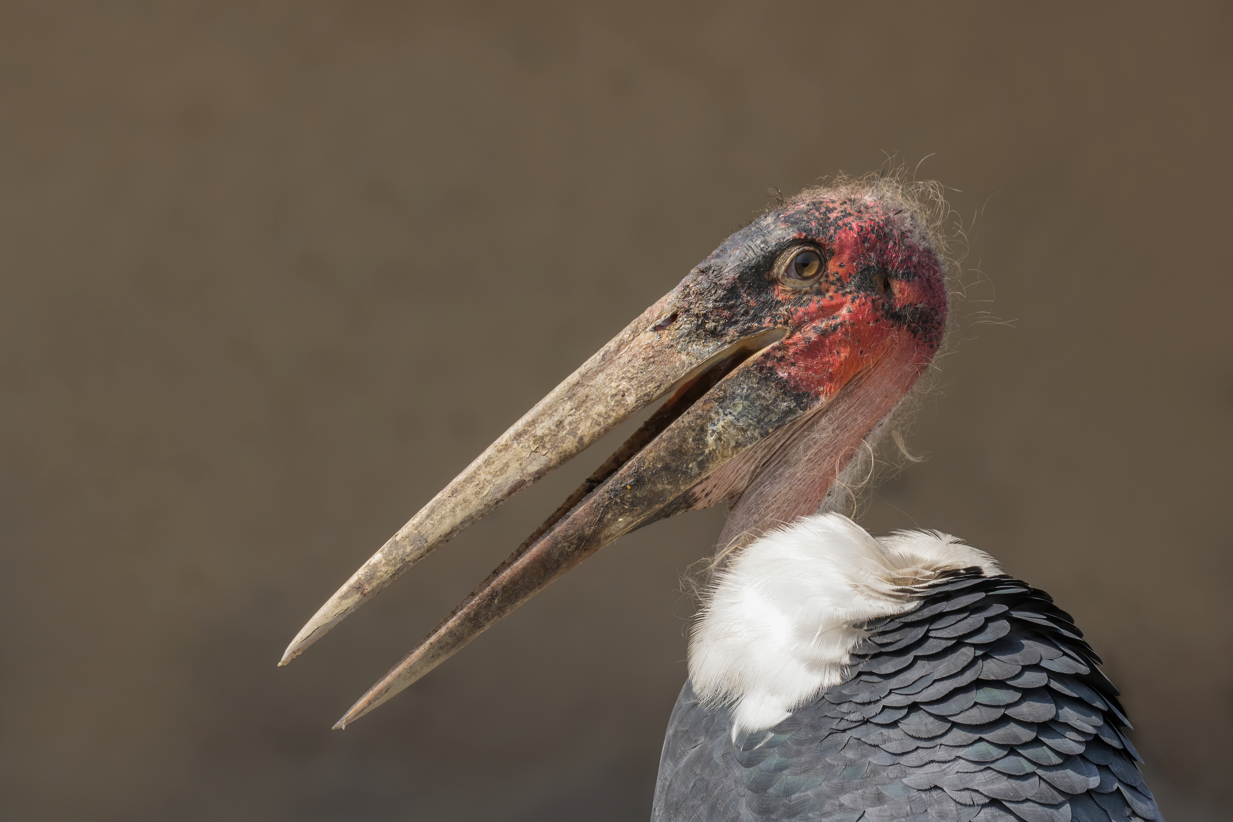 Marabou stork (Leptoptilos crumeniferus), Queen Elizabeth National Park, Uganda